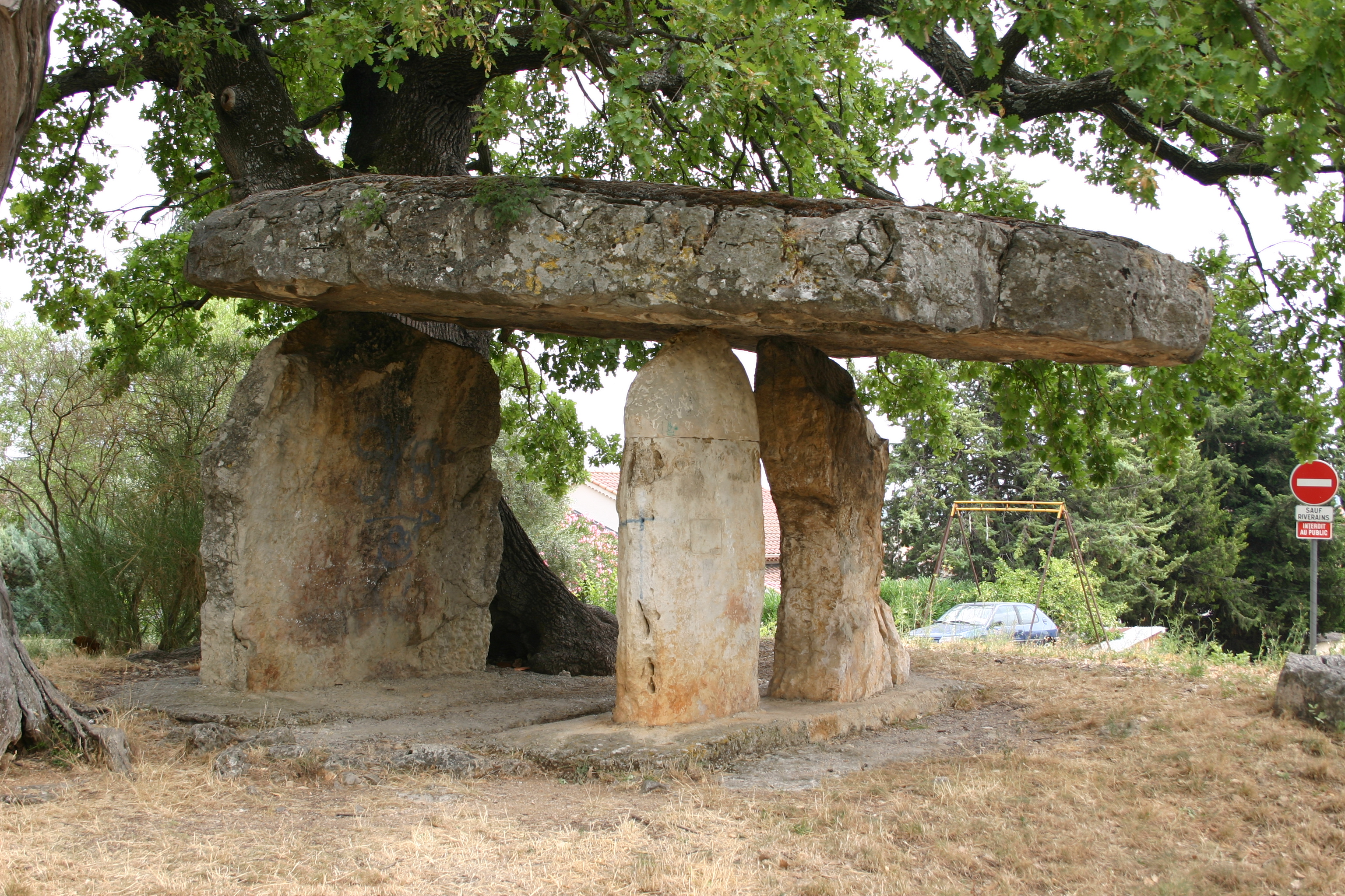 This stone is pre-historic. It is build by the celtic and plase near det town Draguignan in de department Var i Provence - France.